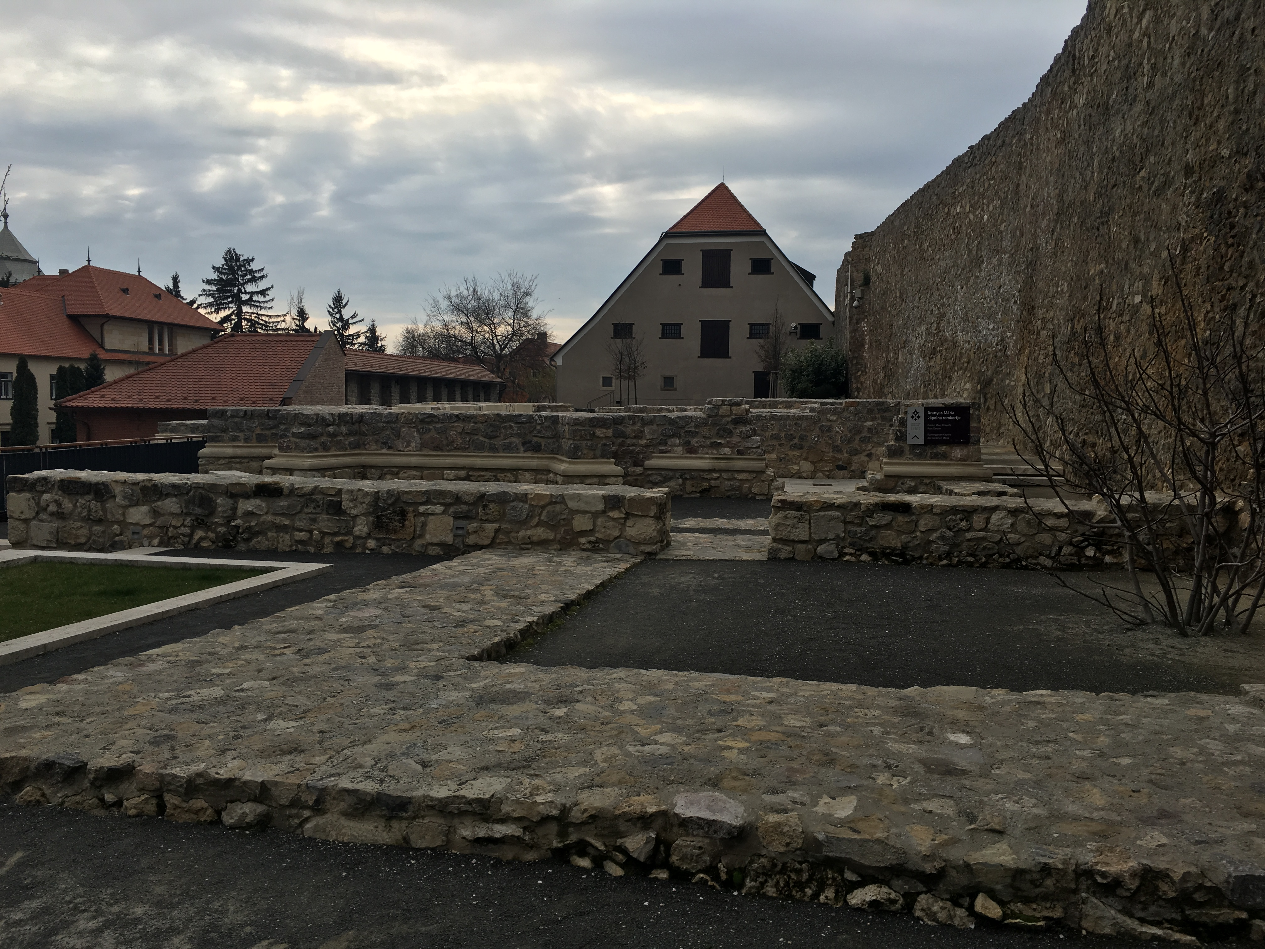 Gold Mary Chapel at Medival University of Pecs